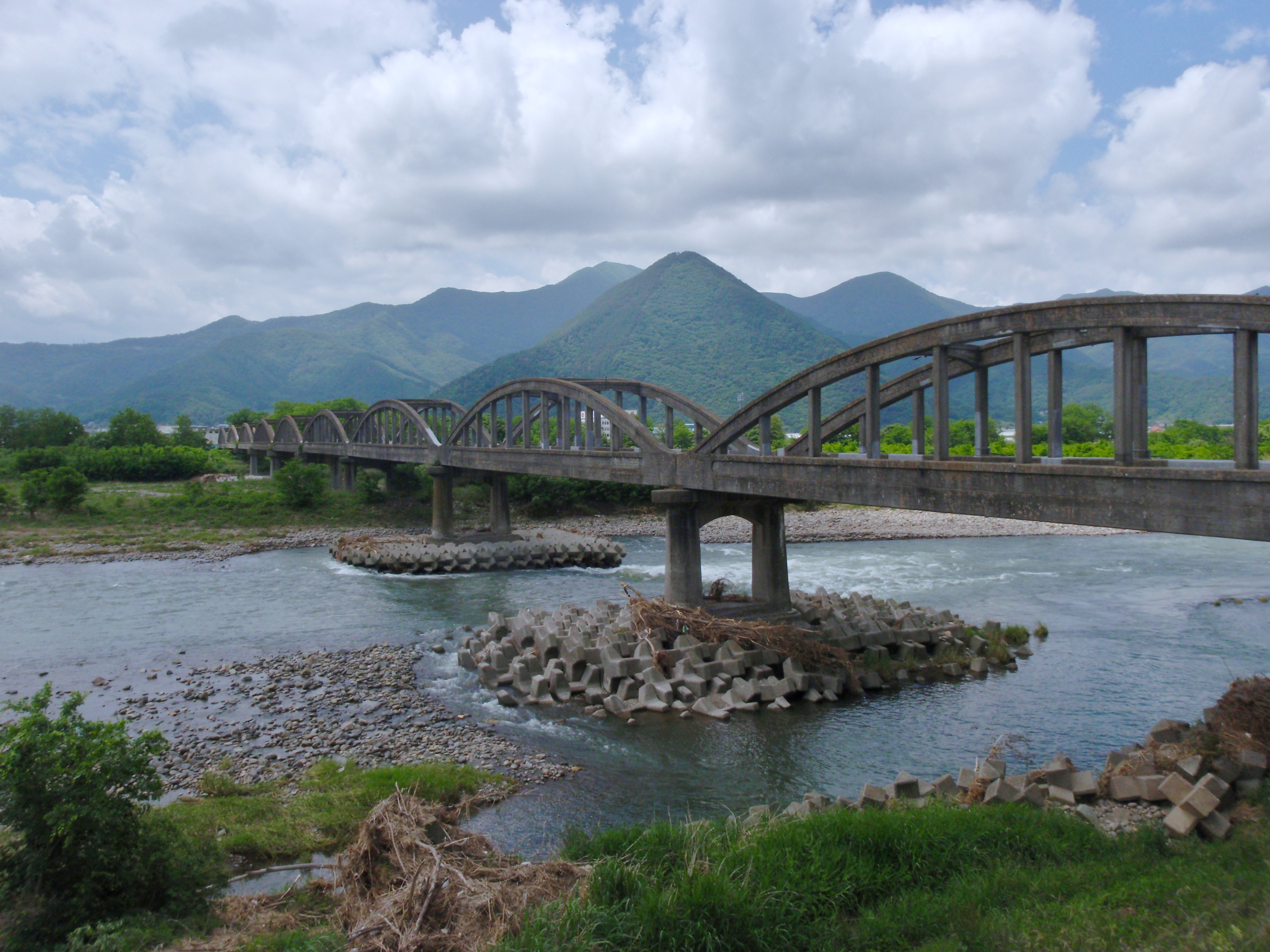 A reinforced concrete bridge across over Chikuma-river at Sakaki-town, Nagano-prefecture, Japan. Built in 1937.